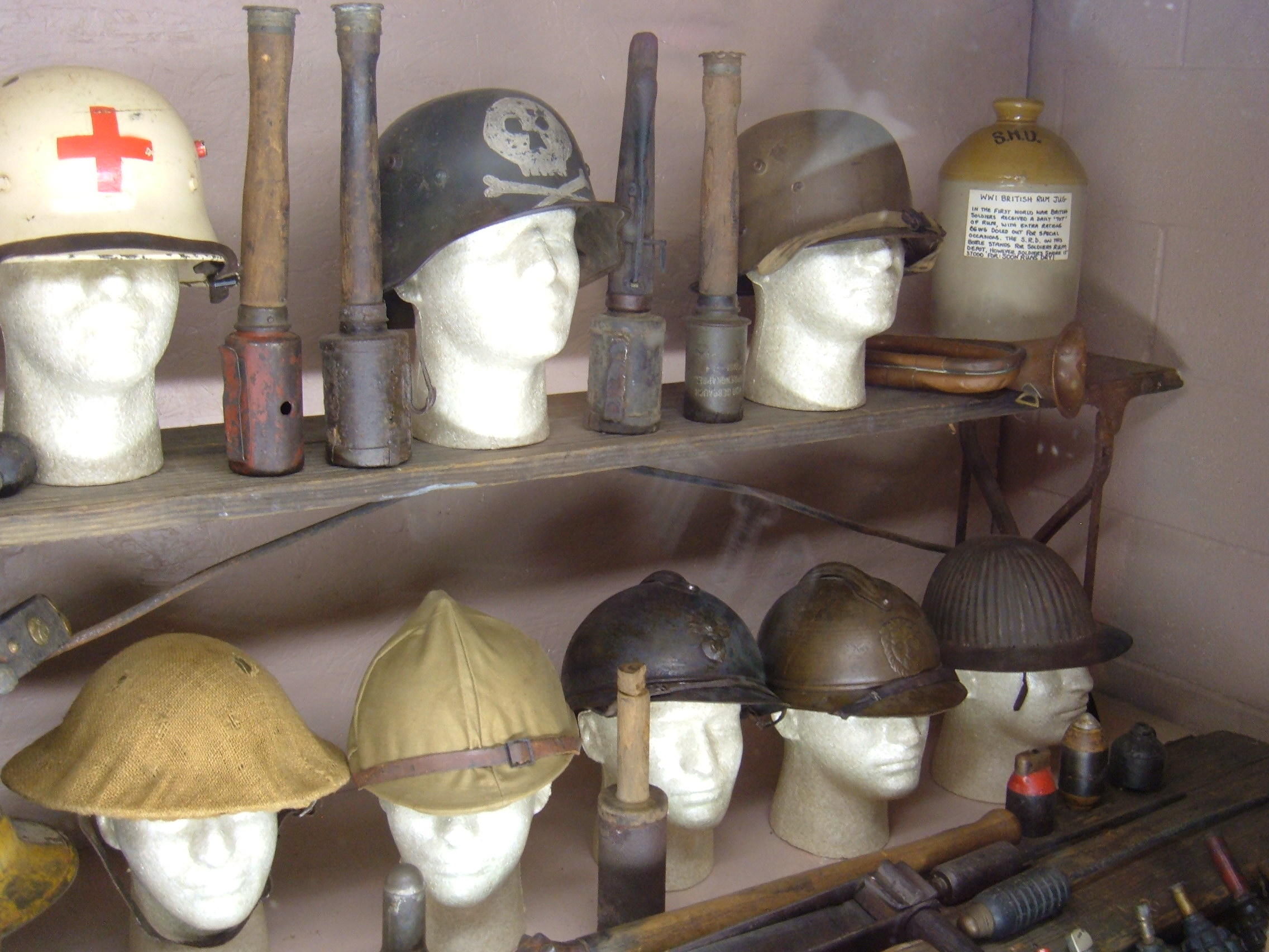 Various World War I helmets and grenades on display at the Sgt. Richard Penry Medal of Honor Memorial Military Museum in Petaluma, California.